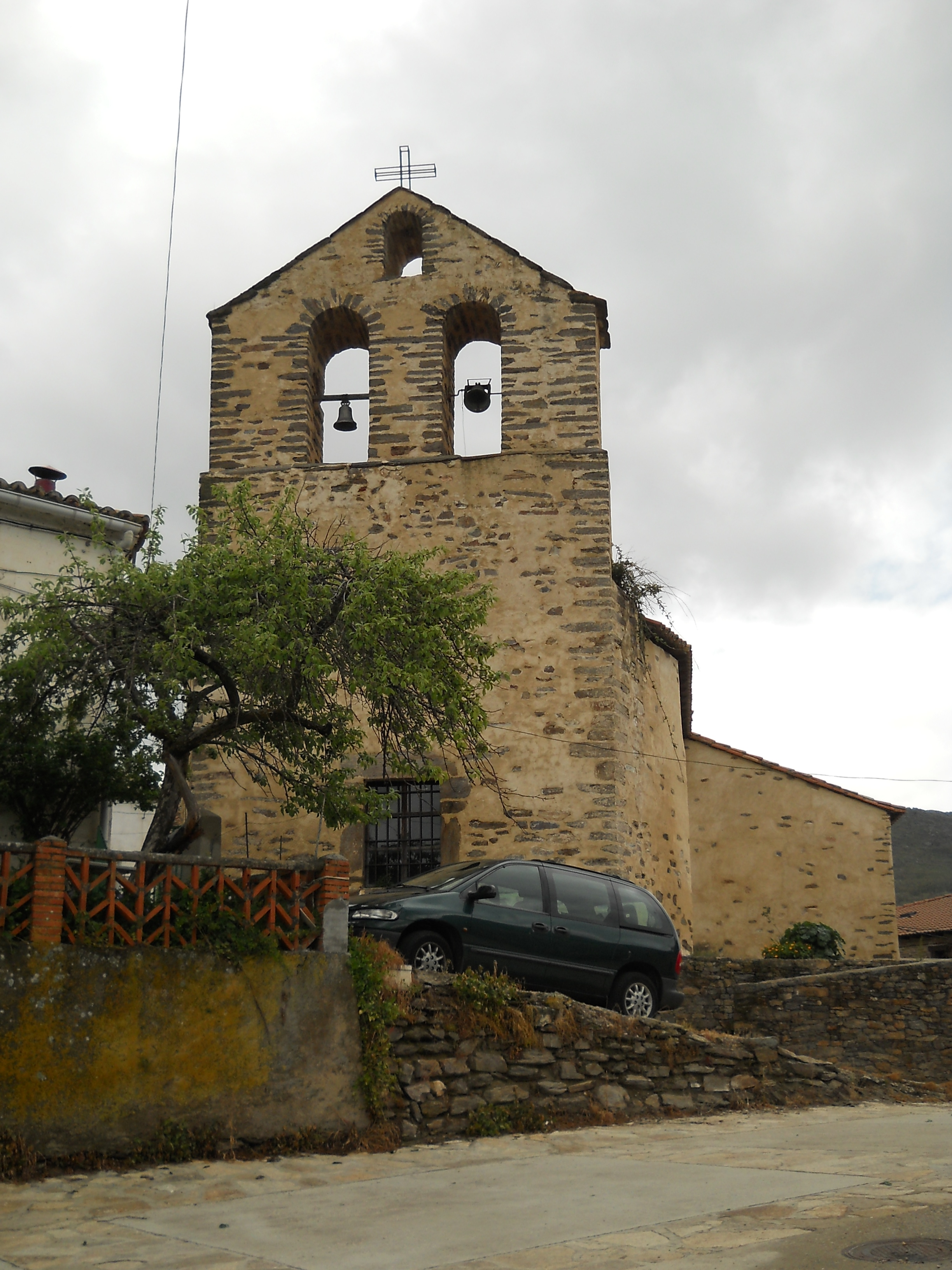 Bell gable, St. James's church, El Cardoso de la Sierra, Guadalajara, Spain